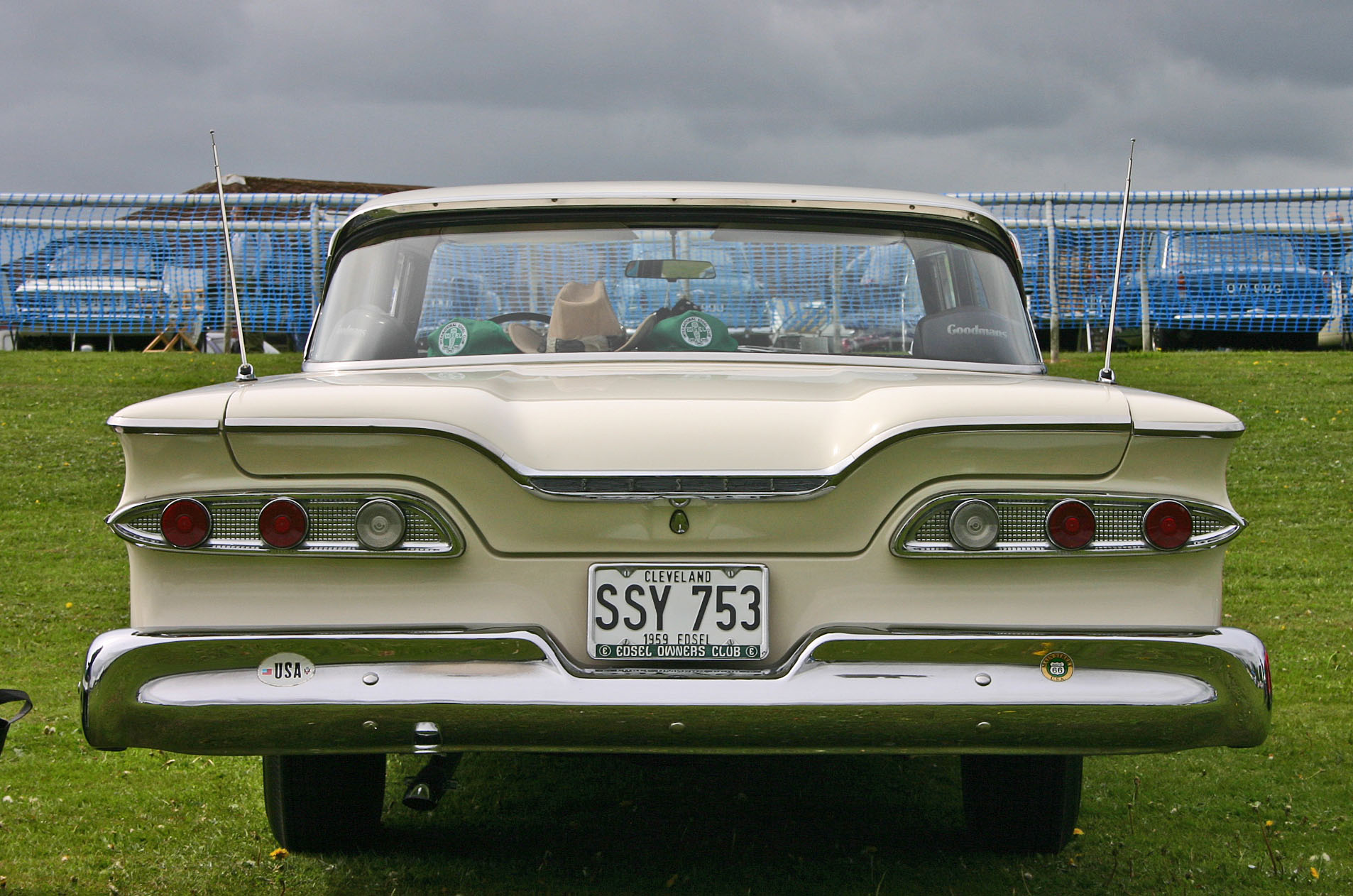 Edsel Ranger 1959 tail